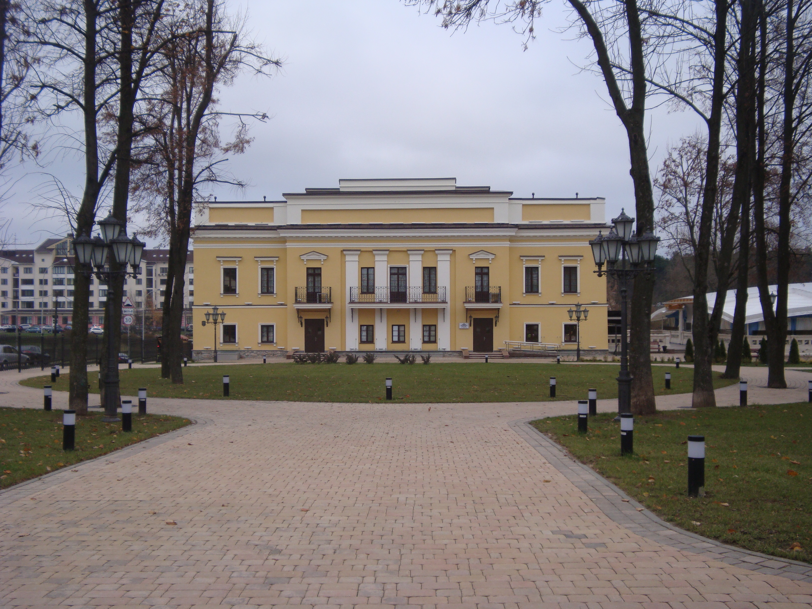 Manor of the Wankowiczs in Minsk, 2013 AD